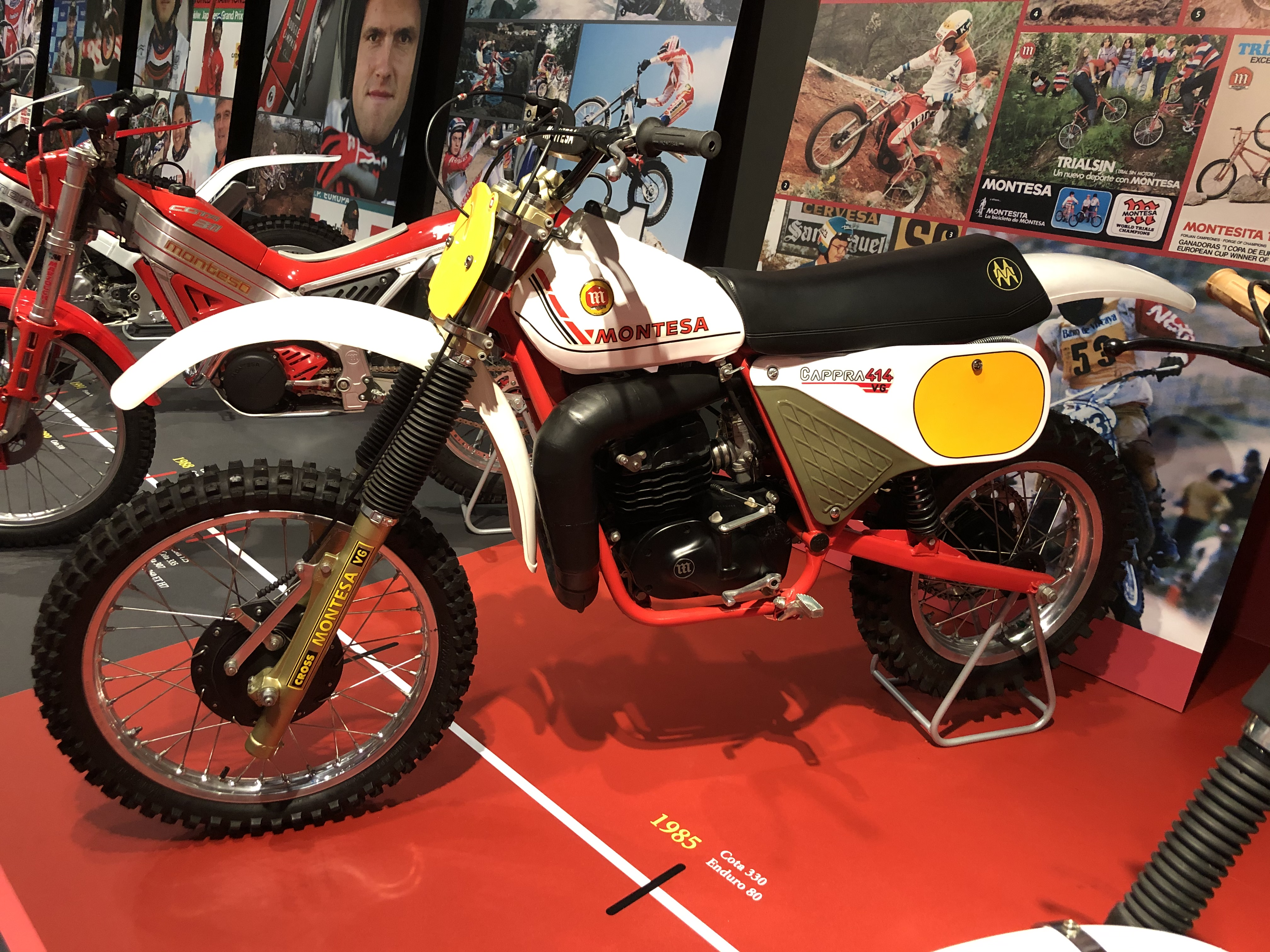 Montesa Cappra 414 VG (1980). Mod. 66M, 413.5 cc